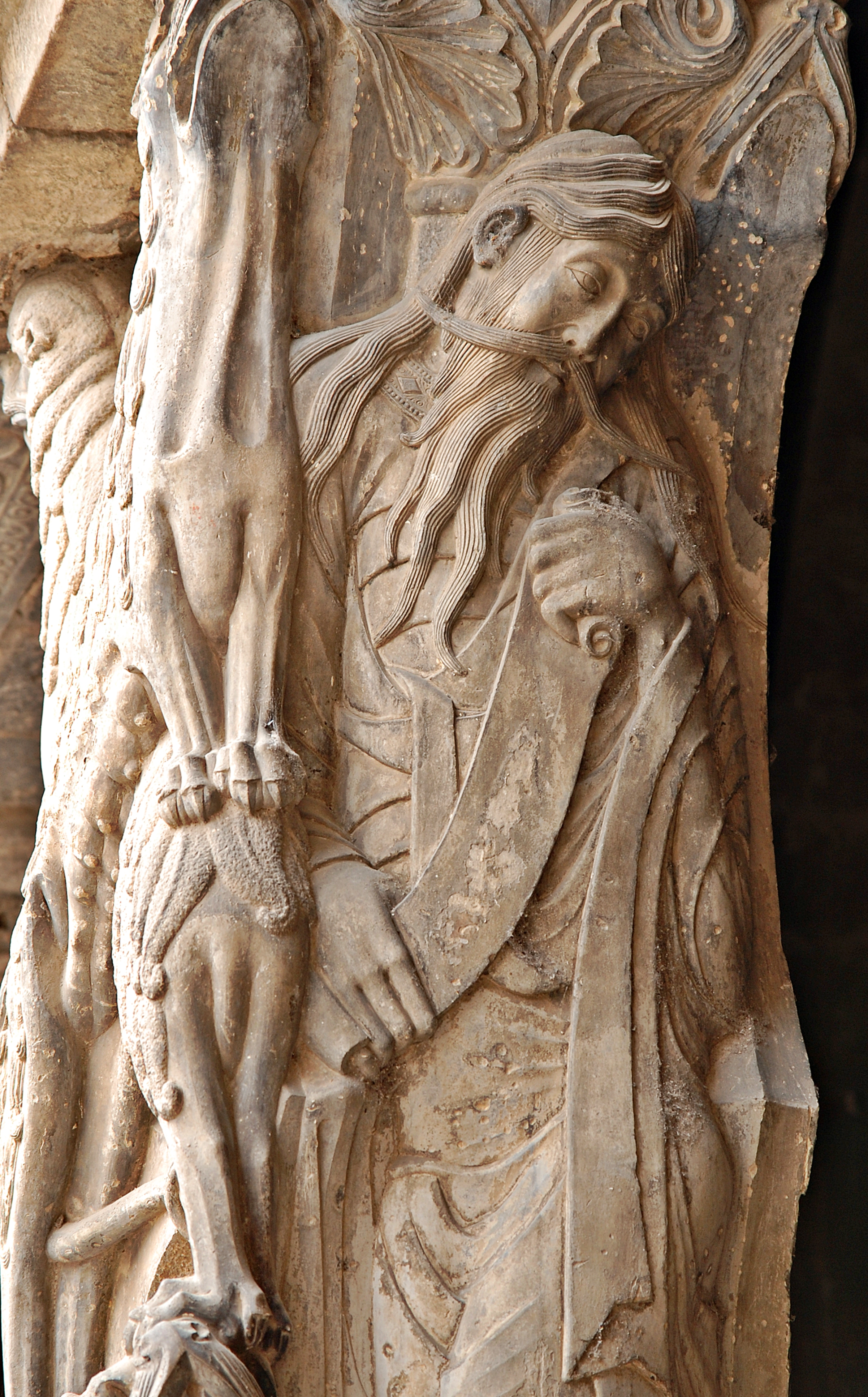 Jeremiah. From trumeau in south portal, Moissac abbey